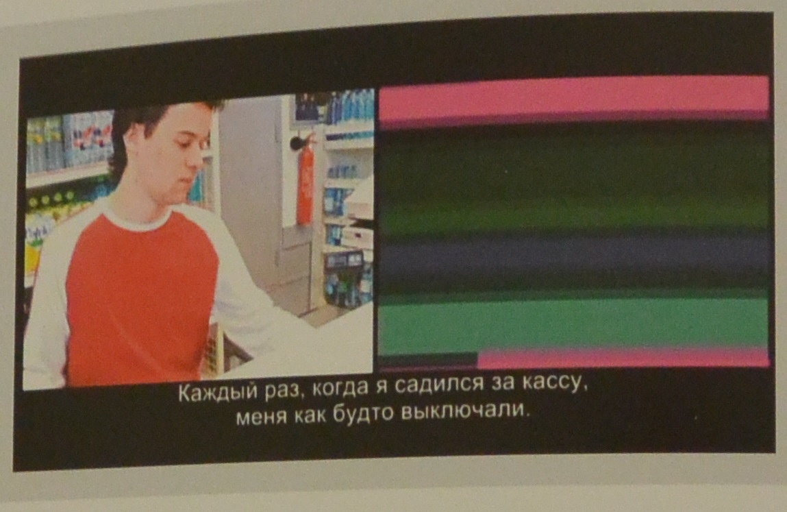 Floran di Bartolo